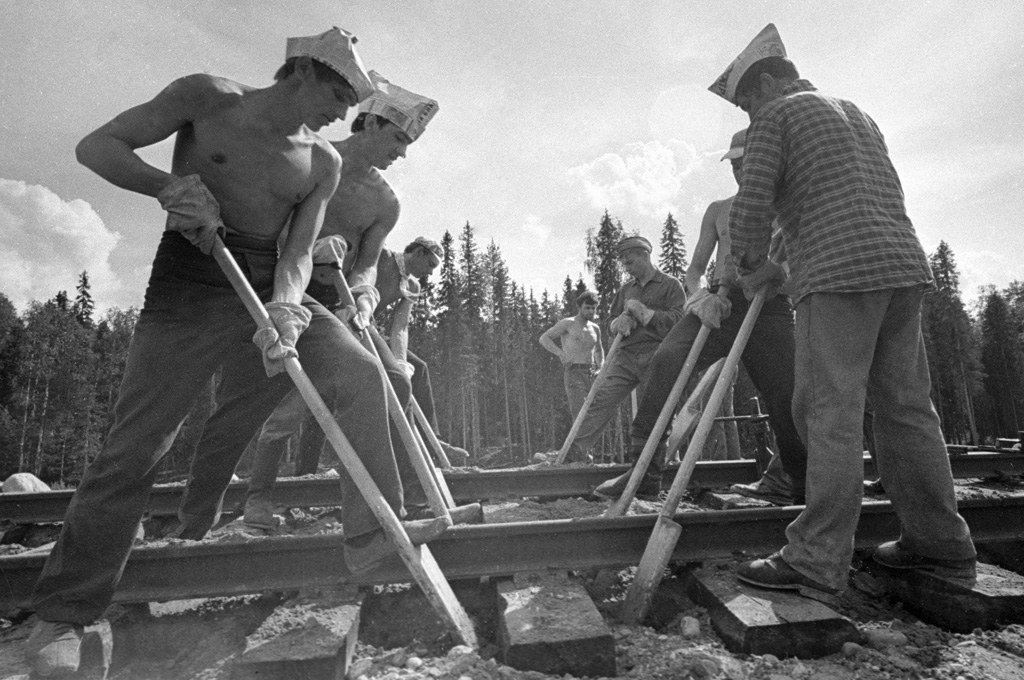 “Students' construction brigade working on the Archangelsk-Karpogory highway”. Students' construction brigade works on the Archangelsk-Karpogory highway